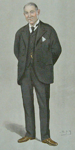 Caricature of Henry Cosmo Bonsor MP (1848-1928). Caption read "The Wimbledon Division".